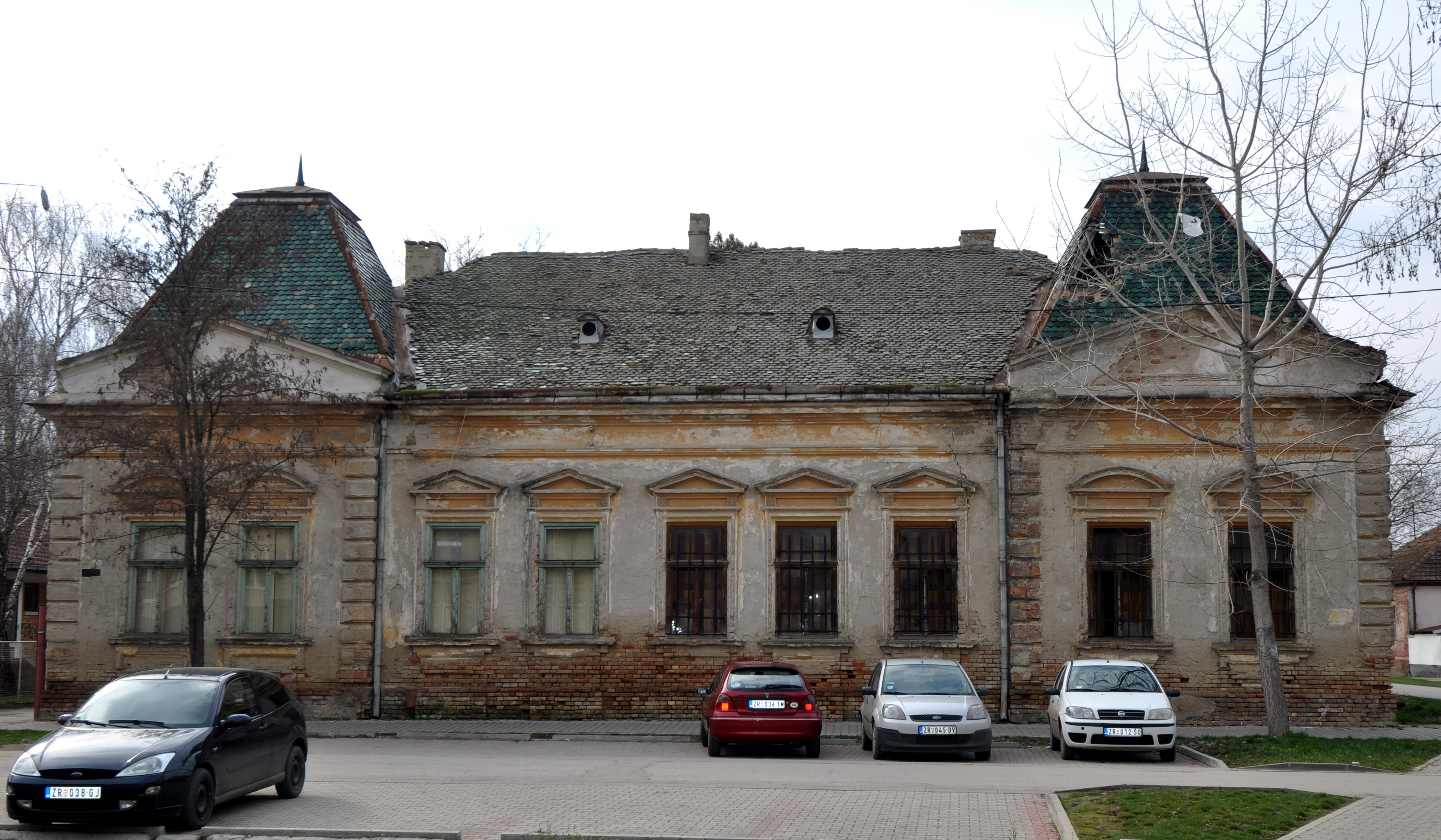 Bibić House in Melenci - front street facade